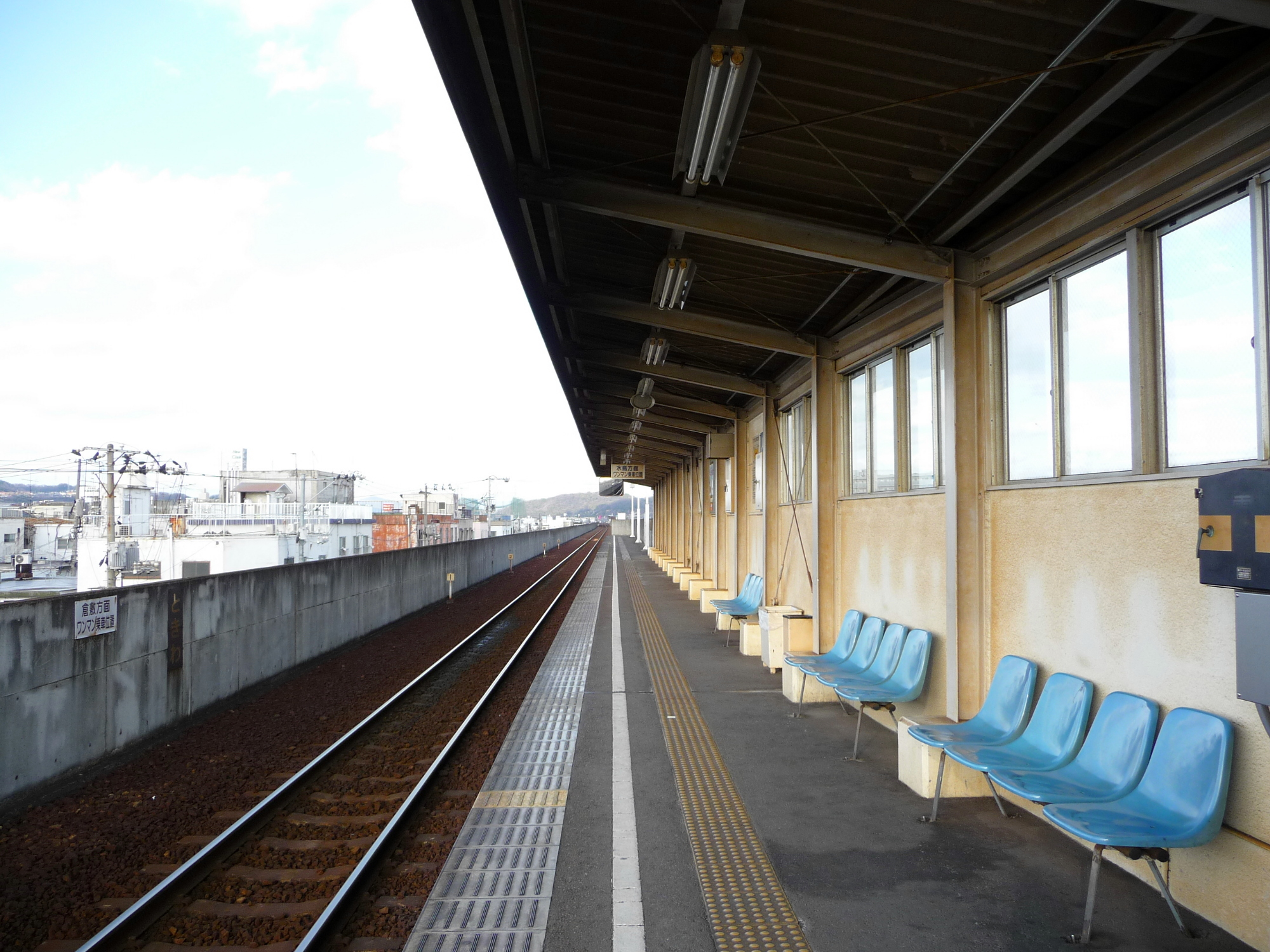 Tokiwa Station platform,Mizushima Rinkai Railway.